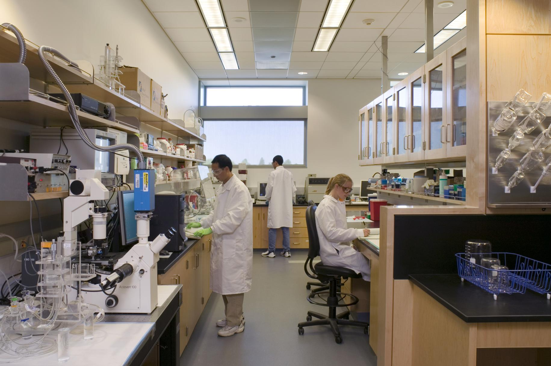 A Biomedical Engineering Laboratory